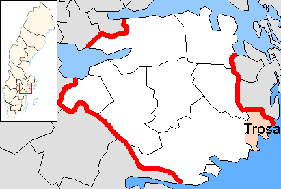 Trosa Municipality in Södermanland County Designd by me, based on Image:Södermanland County.png